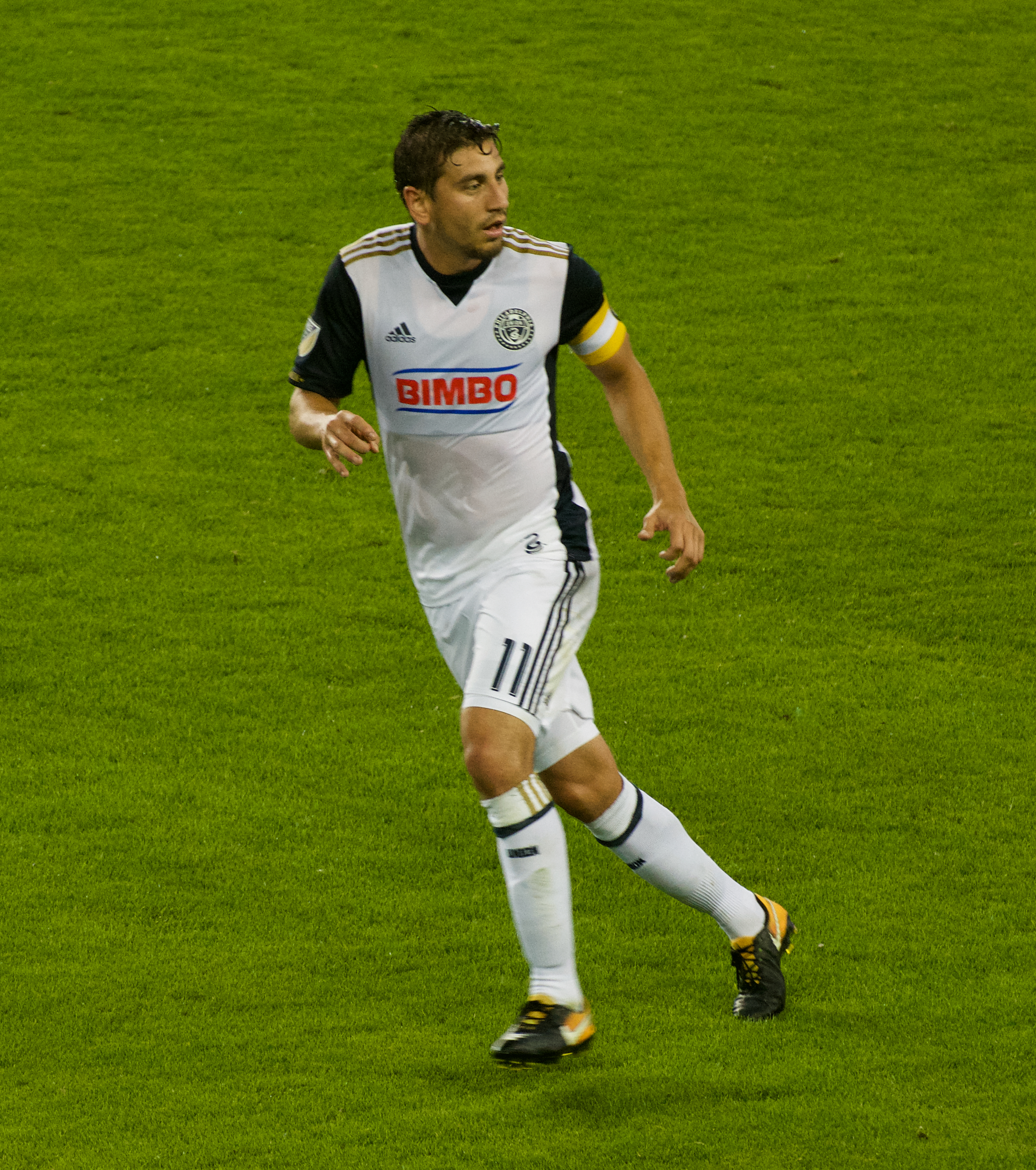 playing for Philadelphia Union at Avaya Stadium on 19 August 2017.